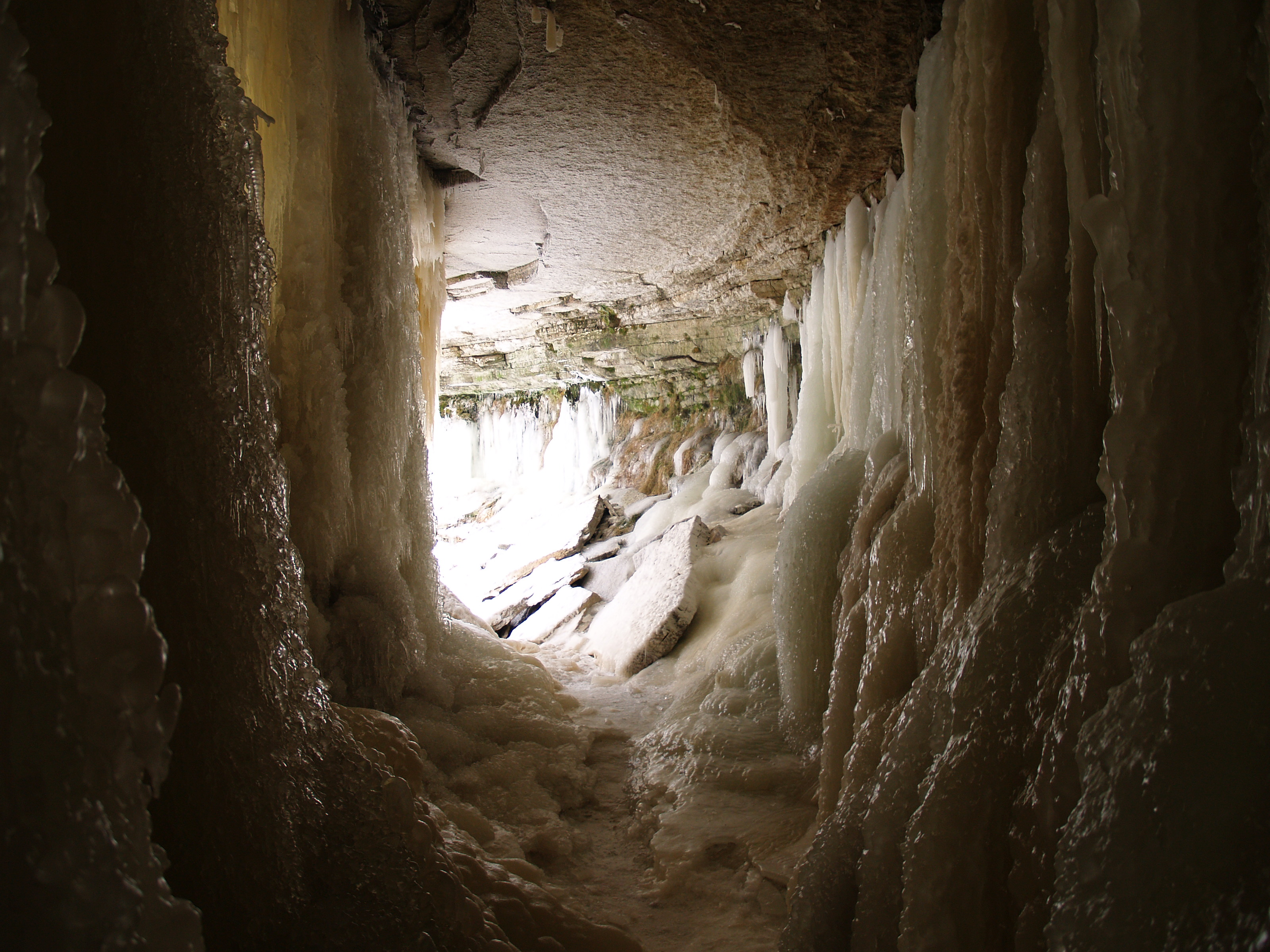 Under the Jägala Waterfall in winter